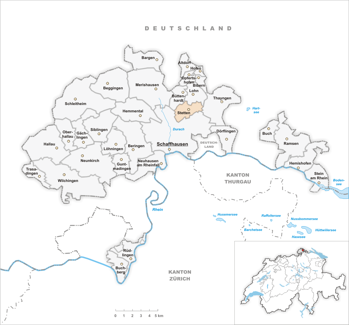 Municipality Stetten